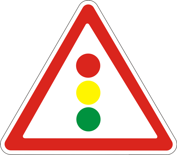 Traffic signals.